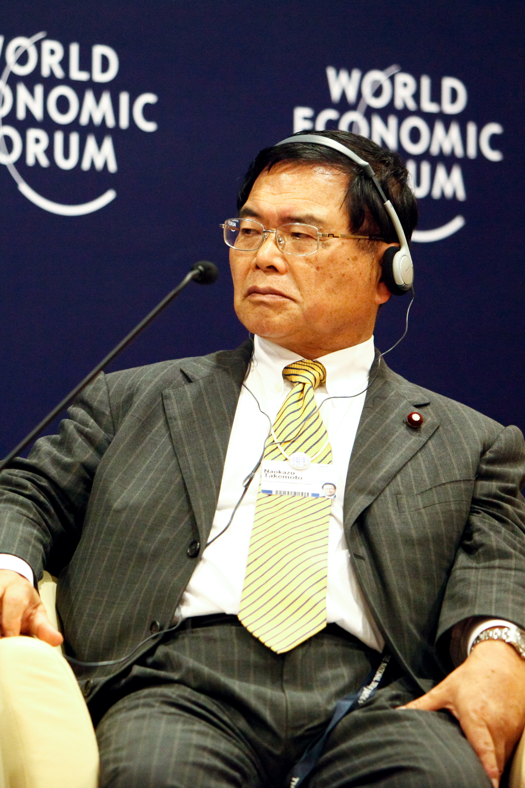 JAKARTA/INDONESIA, 13JUN11 - Naokazu Takemoto, captured during "Currency Volatility: Balancing Flexibility and Stability" at the World Economic Forum on East Asia in Jakarta, Indonesia, June 13, 2011. Copyright World Economic Forum ( by Sikarin Thanachaiary